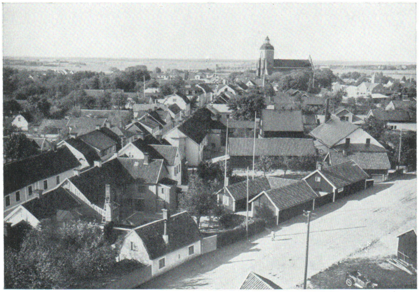 Photo of Skänninge, Sweden